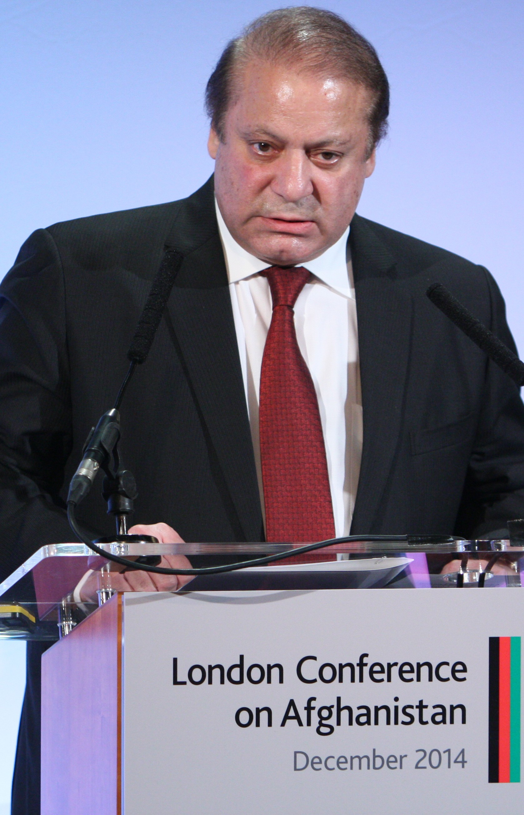 Picture: Patrick Tsui/FCO Free-to-use photo This image is posted under a Creative Commons - Attribution Licence, in accordance with the Open Government Licence. You are free to embed, download or otherwise re-use it, as long as you credit the source as ‘Patrick Tsui/FCO’.